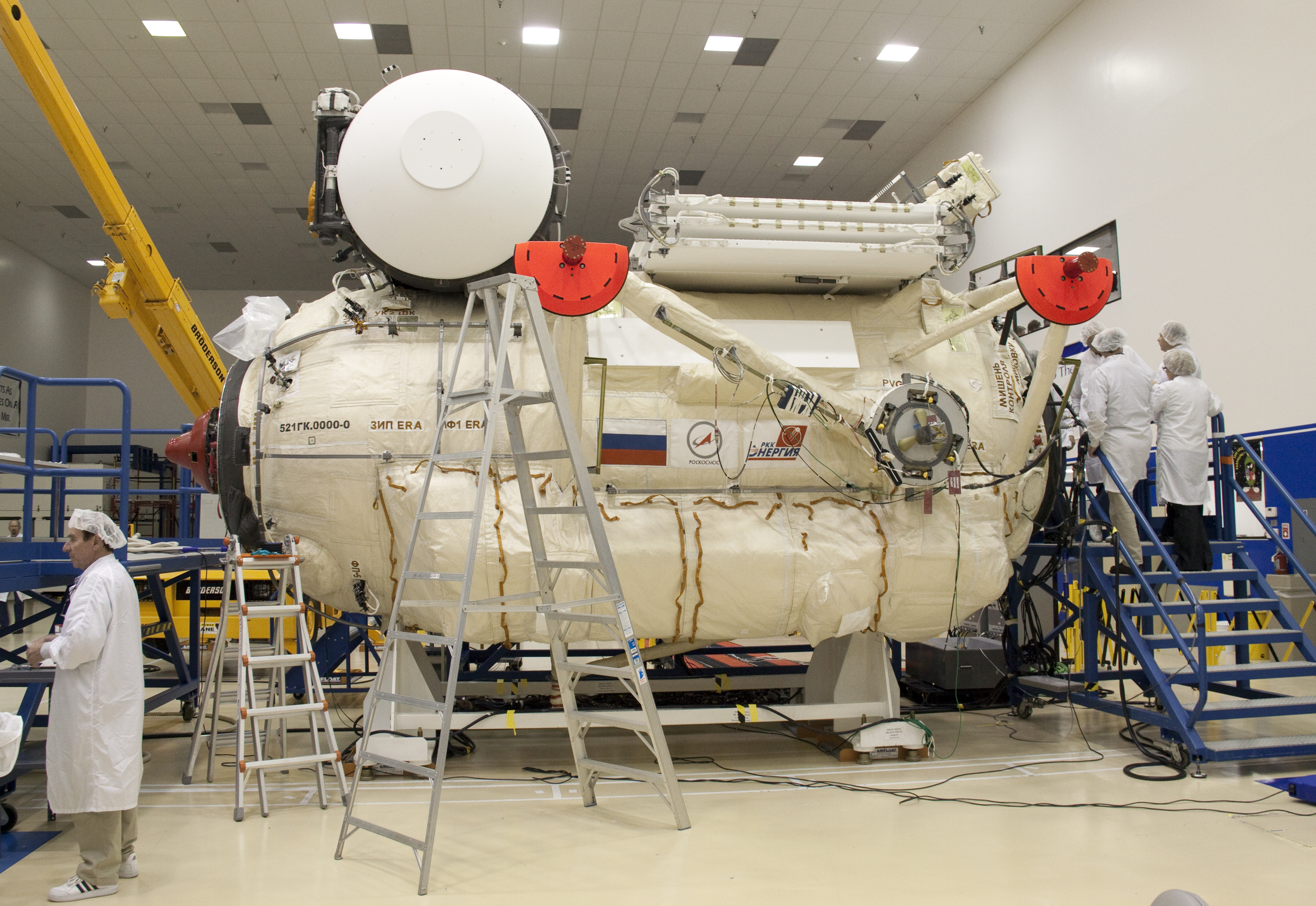 In the Astrotech payload processing facility at Port Canaveral, Fla., supplies and other cargo have been installed in the Russian-built Mini-Research Module-1, or MRM-1, its hatch is closed for flight, and it is ready to be transported to the Space Station Processing Facility at NASA's Kennedy Space Center. The six-member crew of space shuttle Atlantis' STS-132 mission will deliver an Integrated Cargo Carrier and the MRM-1, known as Rassvet, to the International Space Station. The second in a series of new pressurized components for Russia, MRM-1 will be permanently attached to the Earth-facing port of the Zarya control module. Rassvet, which translates to "dawn," will be used for cargo storage and will provide an additional docking port to the station. STS-132 is the 34th mission to the station and the 132nd space shuttle mission. Launch is targeted for May 14.